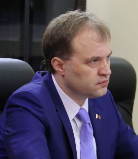 Cropped photo of Transnistrian President Yevgeny Shevchuk meeting with the Organization for Security and Co-operation in Europe in June 2016